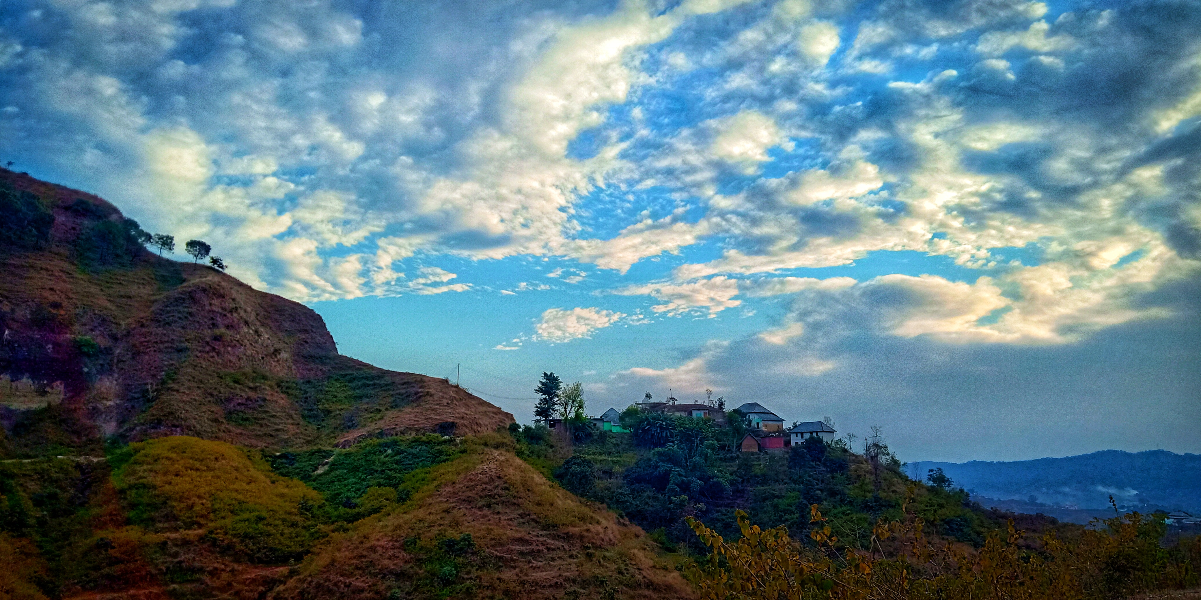 Near Village Chauri, Hamirpur, Himachal, India